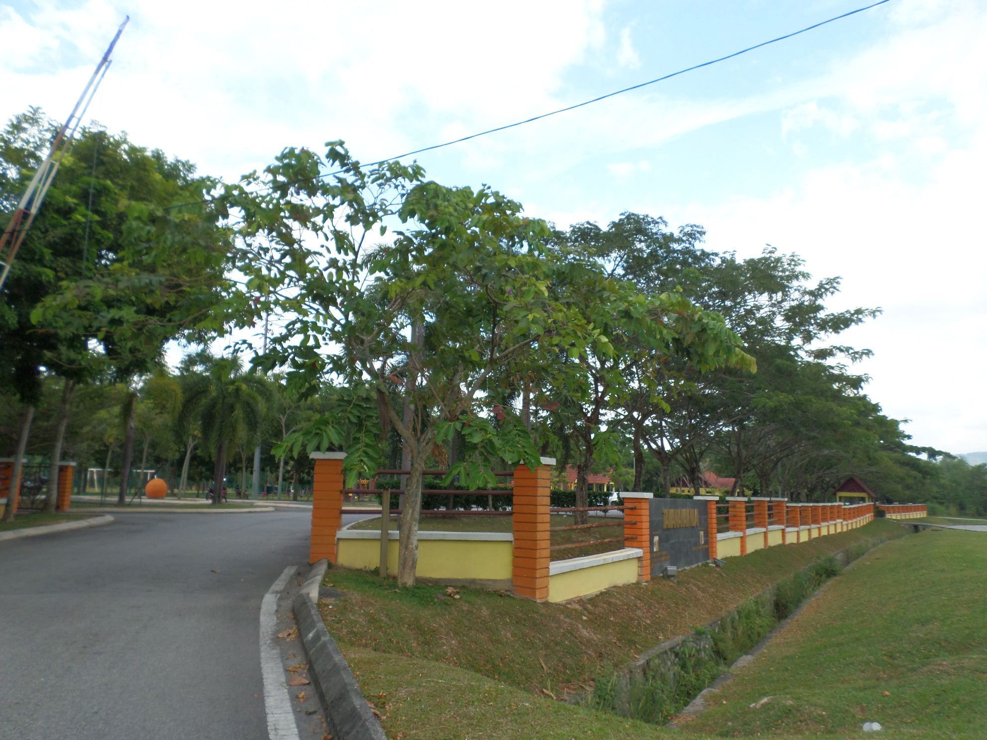 Nilai Public Park, Nilai, Seremban, Negeri Sembilan, Malaysia